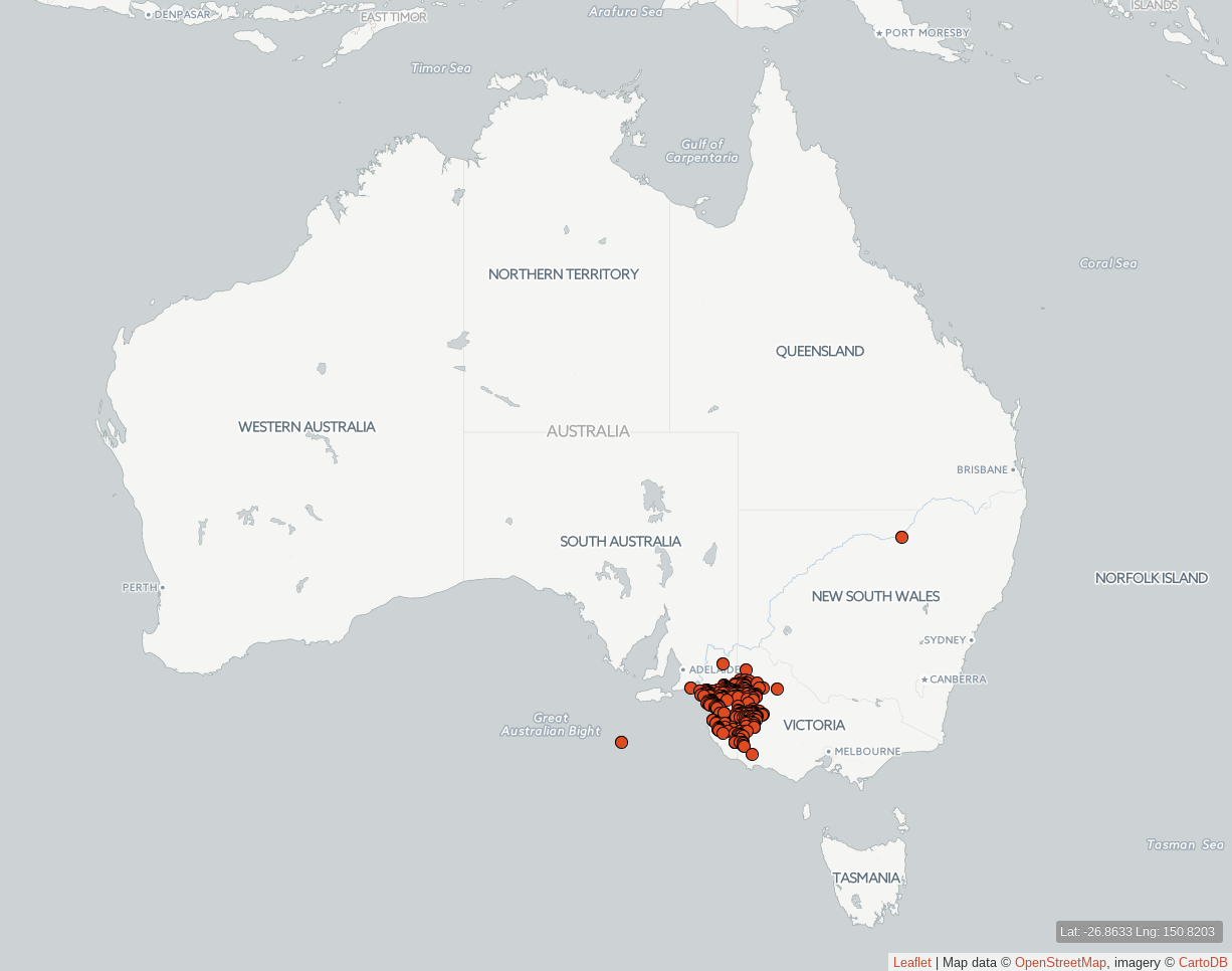 Map of sightings of Silky Mice in Australia